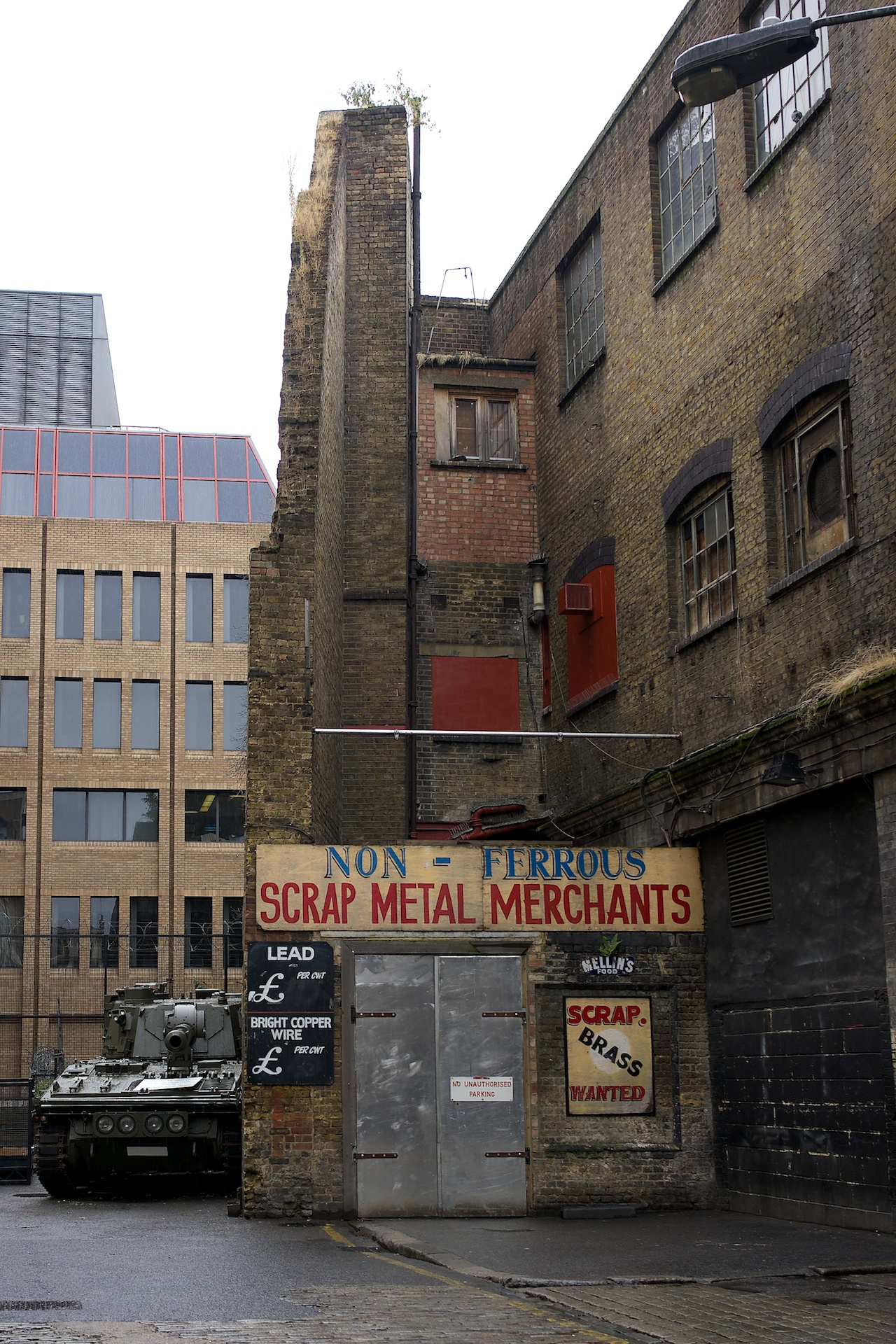 Tank - Don't argue with the door staff at Electrowerkz!